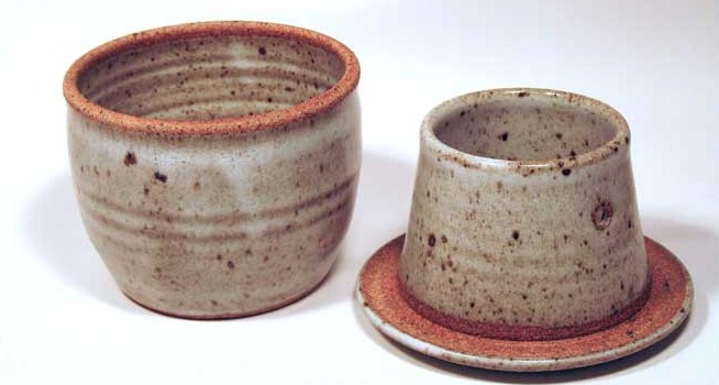 photograph of an open French Butter Dish, lid and base. Photo by James Sloss, French butter dish made on potters wheel by James Sloss